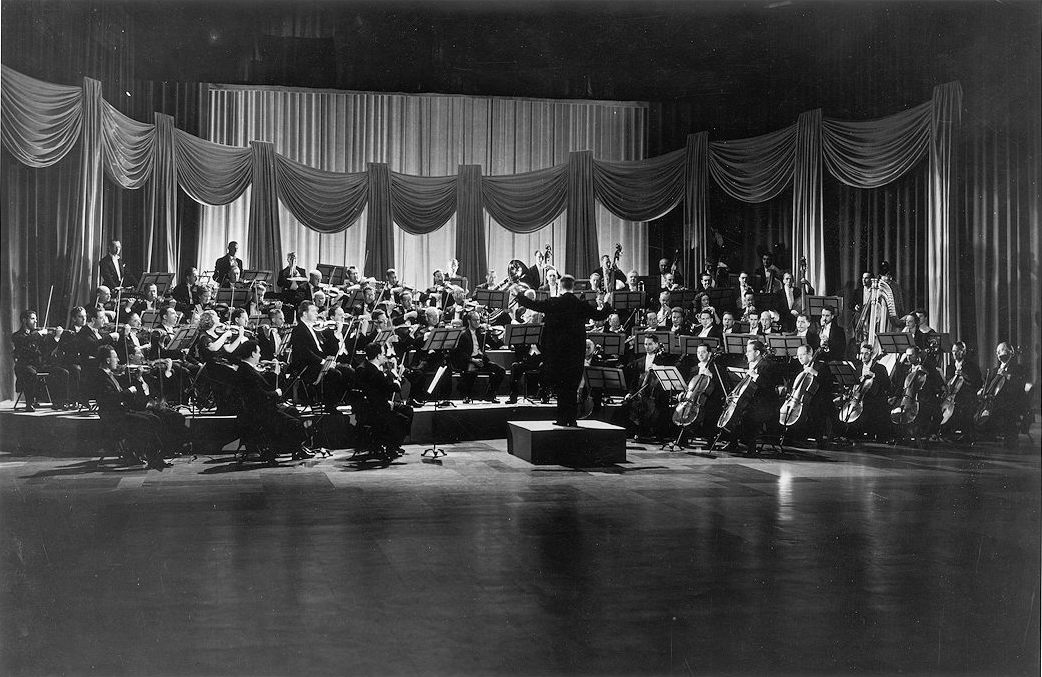 Sir Ernest MacMillan on stage conducting the Toronto Symphony Orchestra for a Canadian Broadcasting Corporation production, circa 1947.